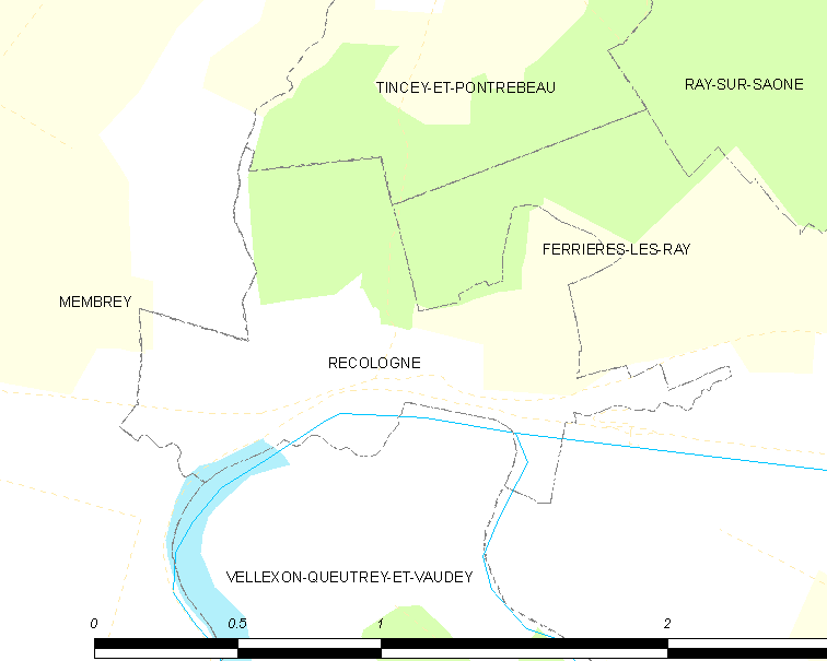 Map of French municipality